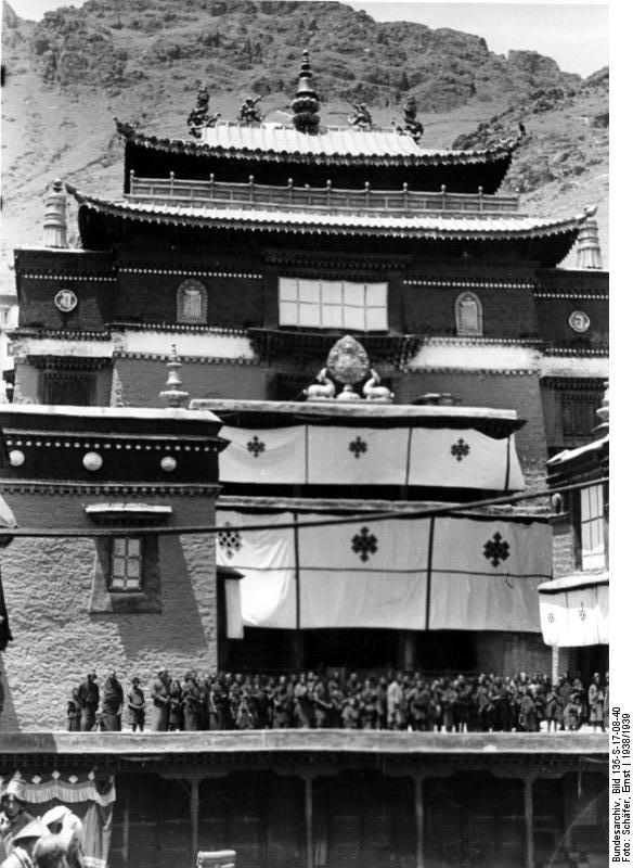 Taschilumpo [Tashilhunpo], Tempelhof im Kloster Taschilumpo [Tashilhunpo]